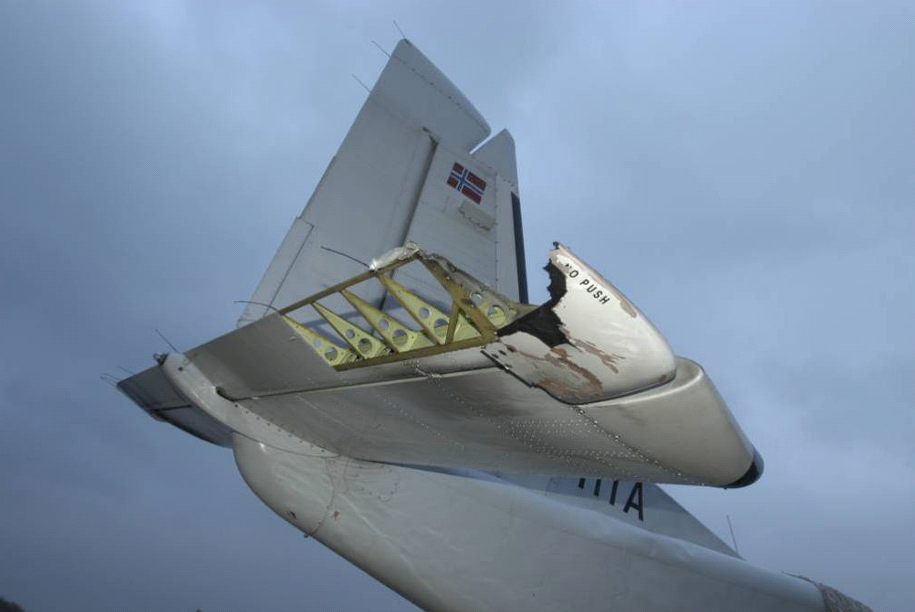 On 4 December 2003 a Dornier 228 operating Flight 603 was struck by lightning, causing a fracture to the control rod that operated the elevator.